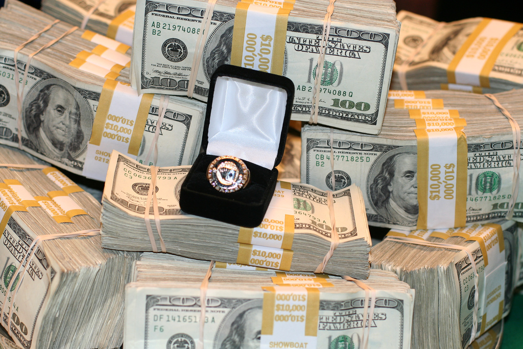 Chris Reslock's World Series of Poker Circuit gold ring along with prize money won at the the $9,700 Championship Event held at the Showboat Casino in Atlantic City.